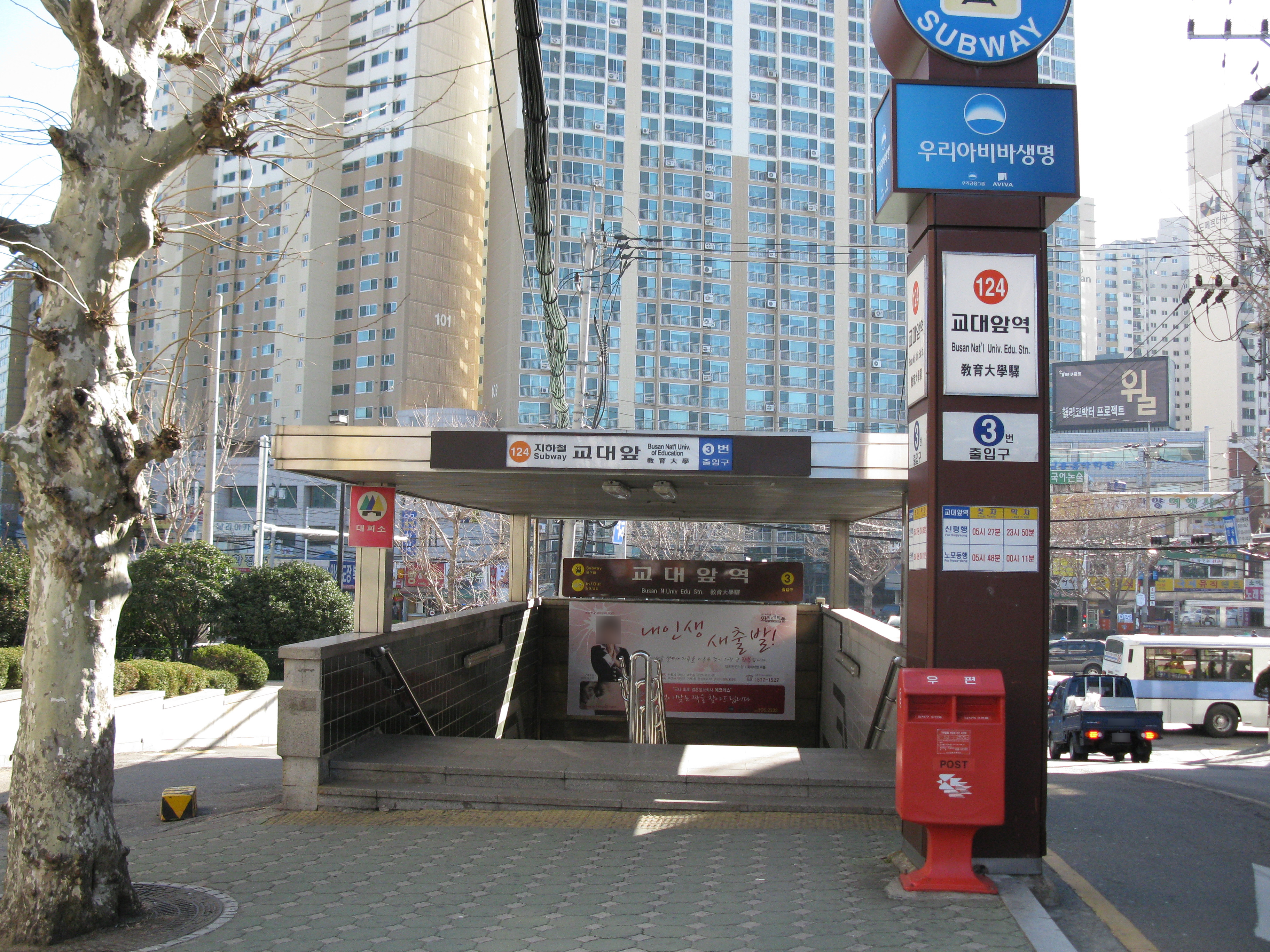 Busan Nat'l. Univ. of Education Station no.3 entrance (Busan Subway Line 1)